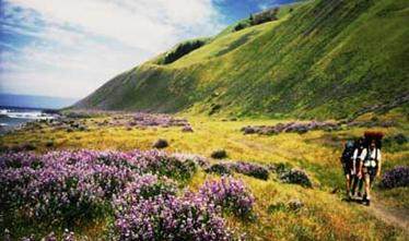 Hiking the Lost Coast of the King Range